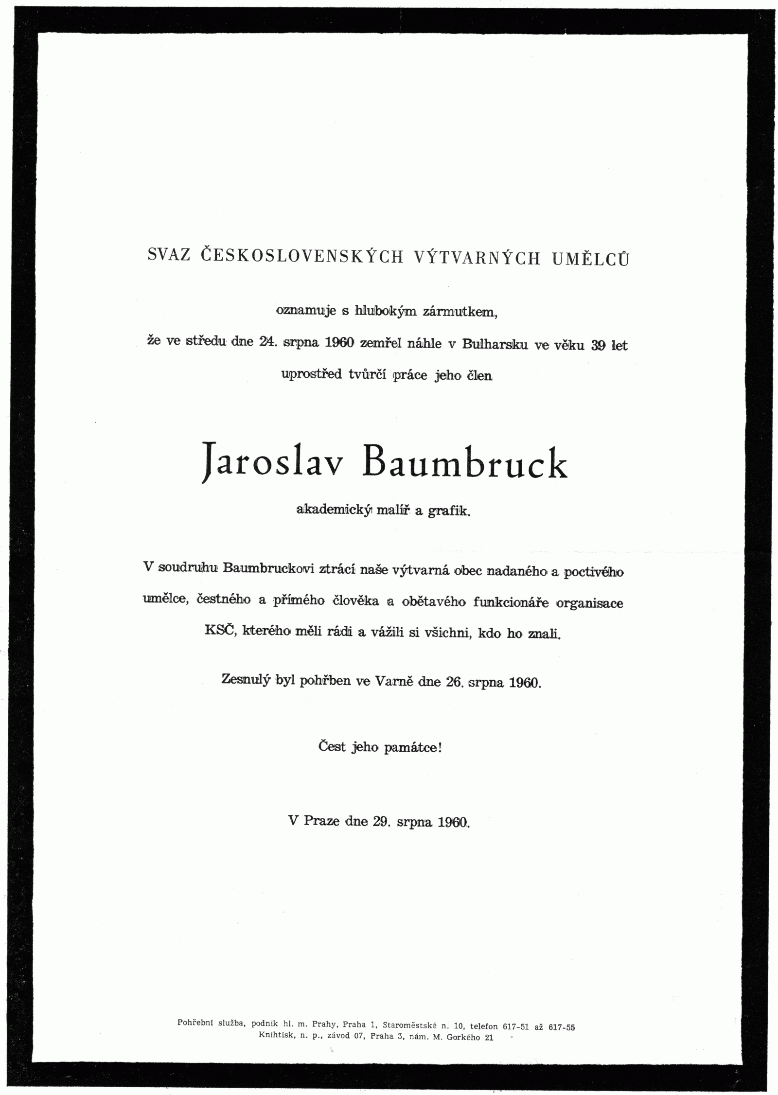 Notification of the death of Jaroslav Baumbruck (1921 - 1960), Czech painter and illustrator.